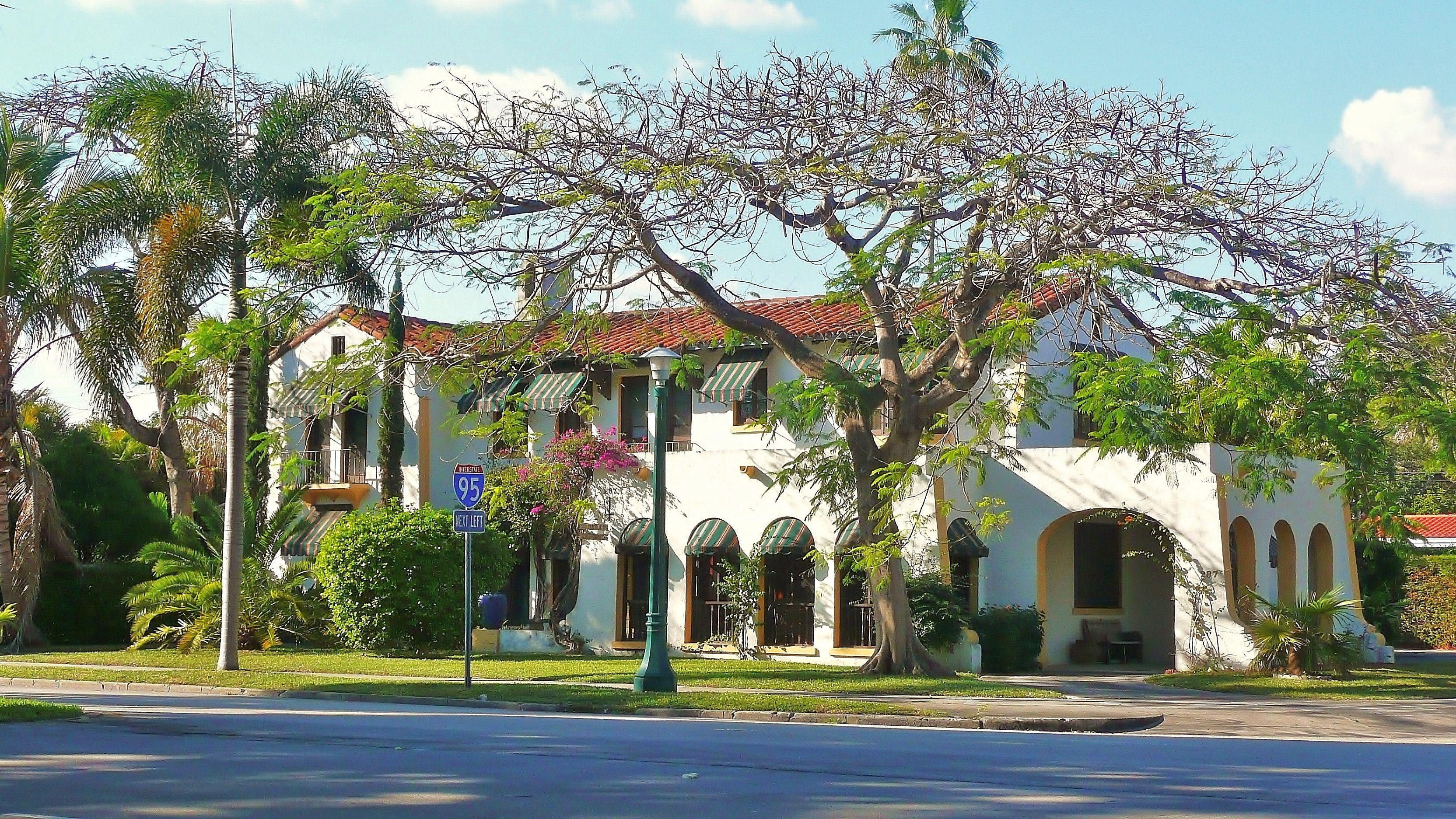 Digital photo taken by Marc Averette. Typical house in Miami Shores, Florida, United States.